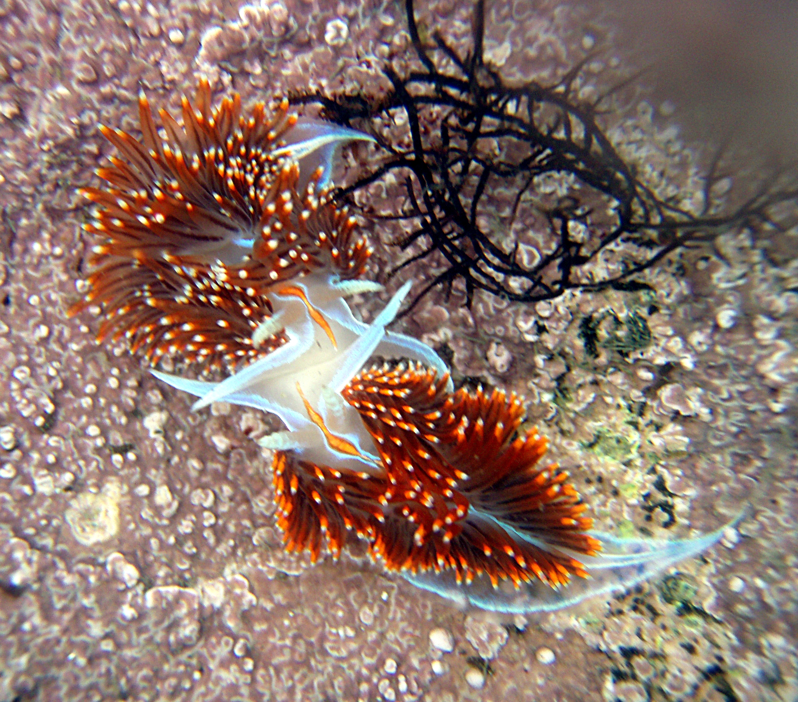 Nudibranches (Hermissenda crassicornis) in California tide pools